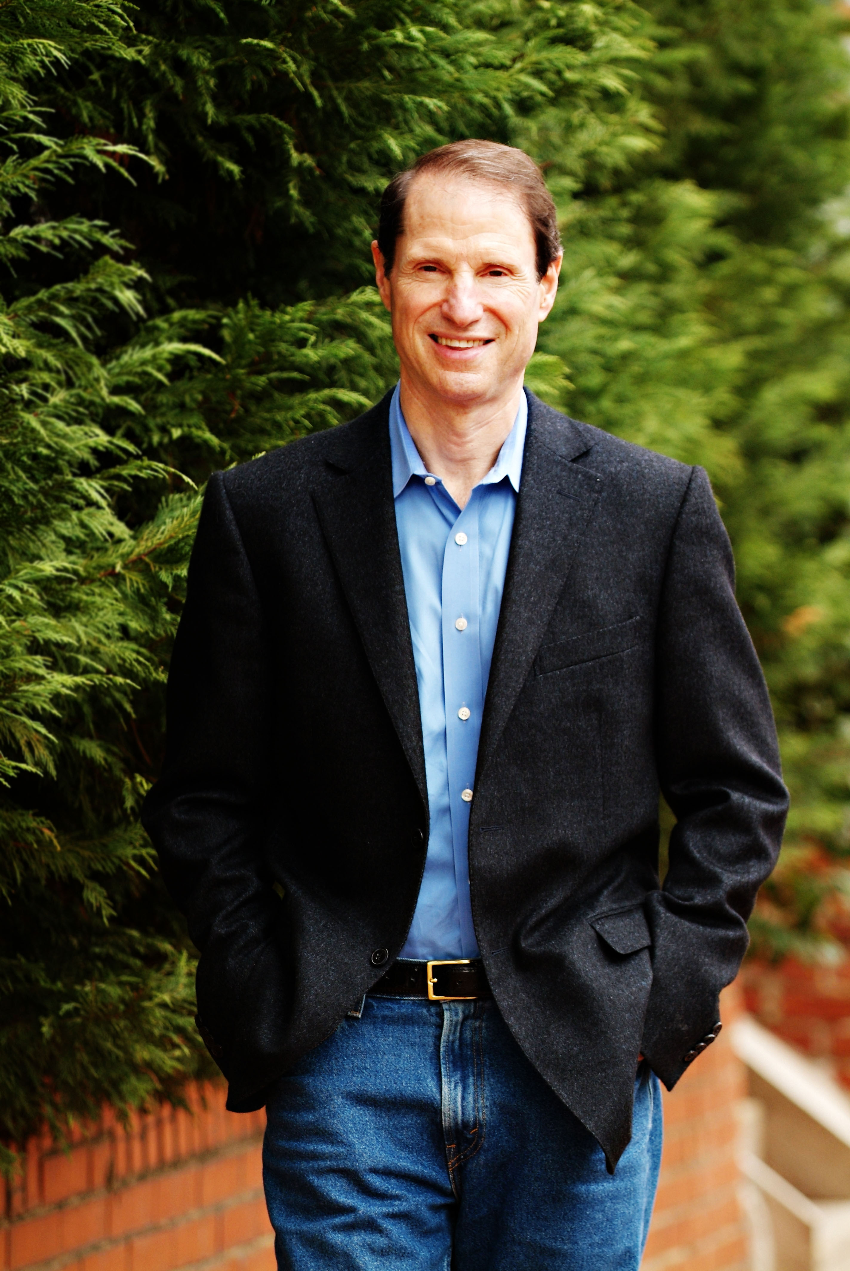 Ron Wyden, member of the United States Senate from Oregon.